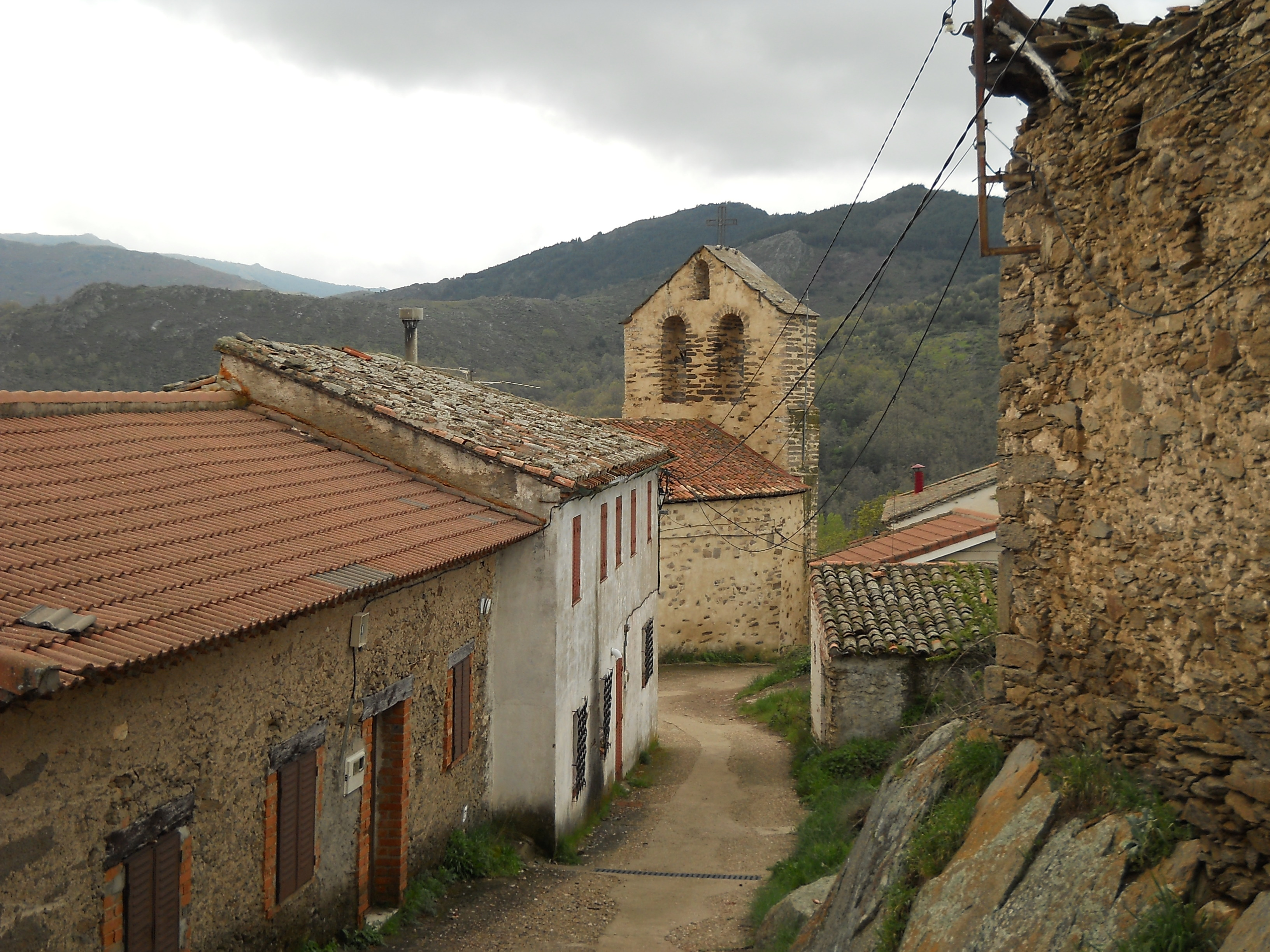 Calle de la Arriba, El Cardoso de la Sierra, Guadalajara, Spain